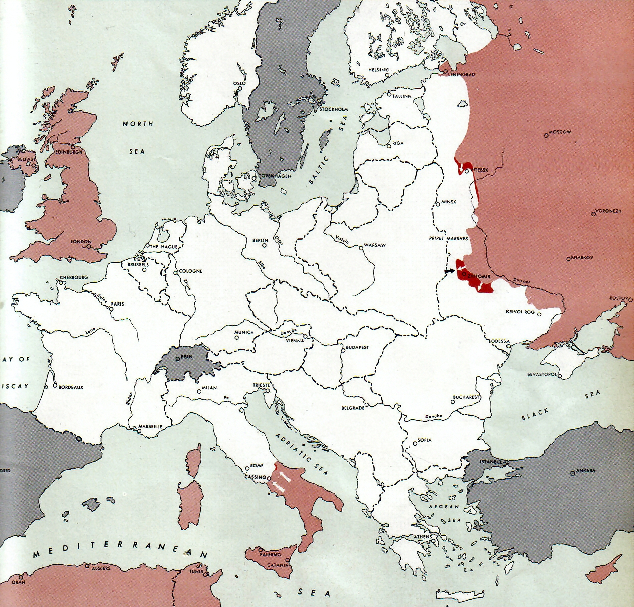 Map of the front against Germany: This map is taken from the source "Atlas of the World Battle Fronts in Semimonthly Phases to August 15th 1945: Supplement to The Biennial report of The Chief of Staff of the United States Army July 1, 1943 to June 30 1945 To the Secretary of War". (See Cover, Forward and Map details)